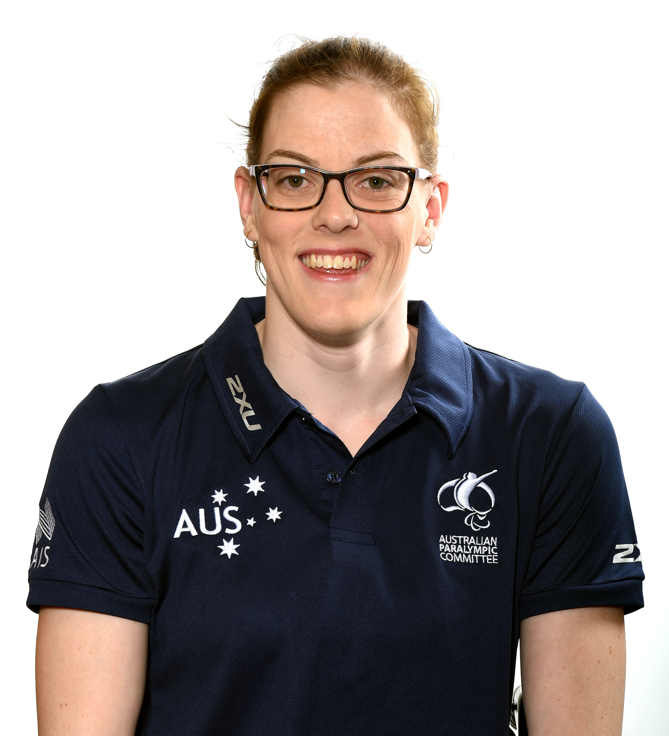 Media photo of 2016 Australian Paralympic Team Member Rachael Watson